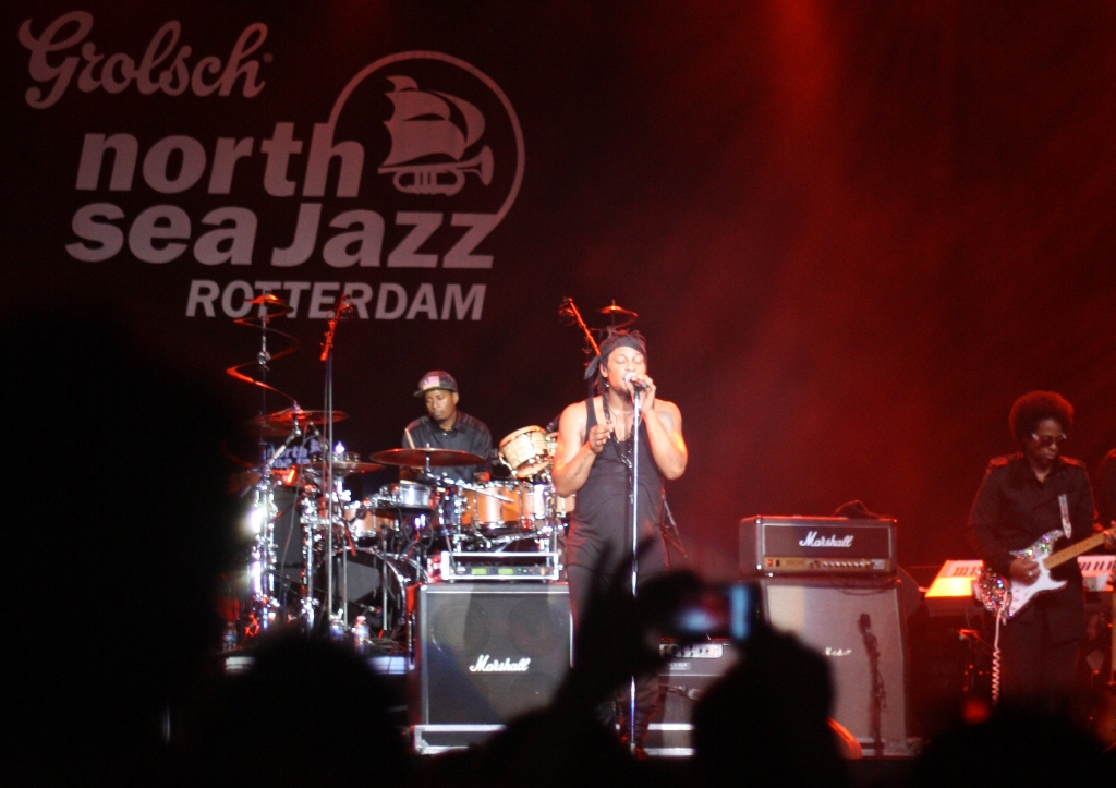 D'ANGELO live at the NSJ Sunday 08 July 2012. The North Sea Jazz Festival is an annual jazz festival held each second weekend of July in Rotterdam the Netherlands at the Ahoy venue. Founded in 1976 by Indies Dutchman Paul Acket in The Hague.